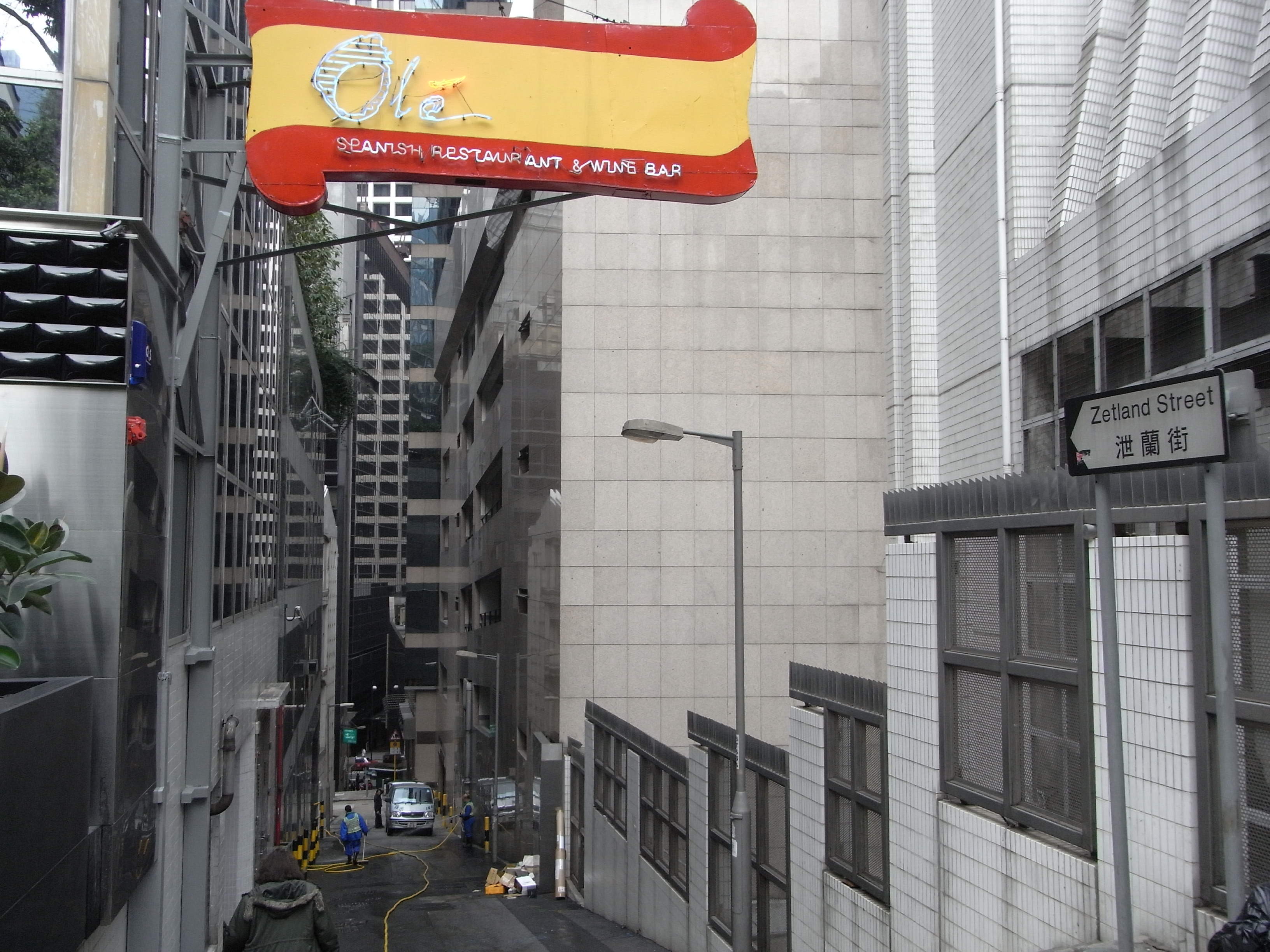 中環